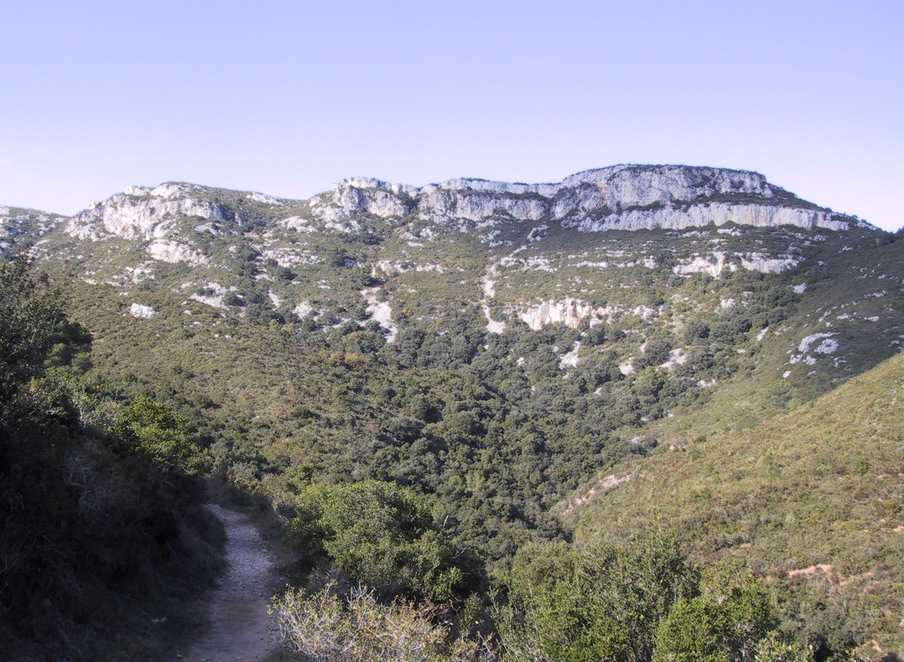 Mata-redona mountain, Amposta (Montsià, Catalonia)